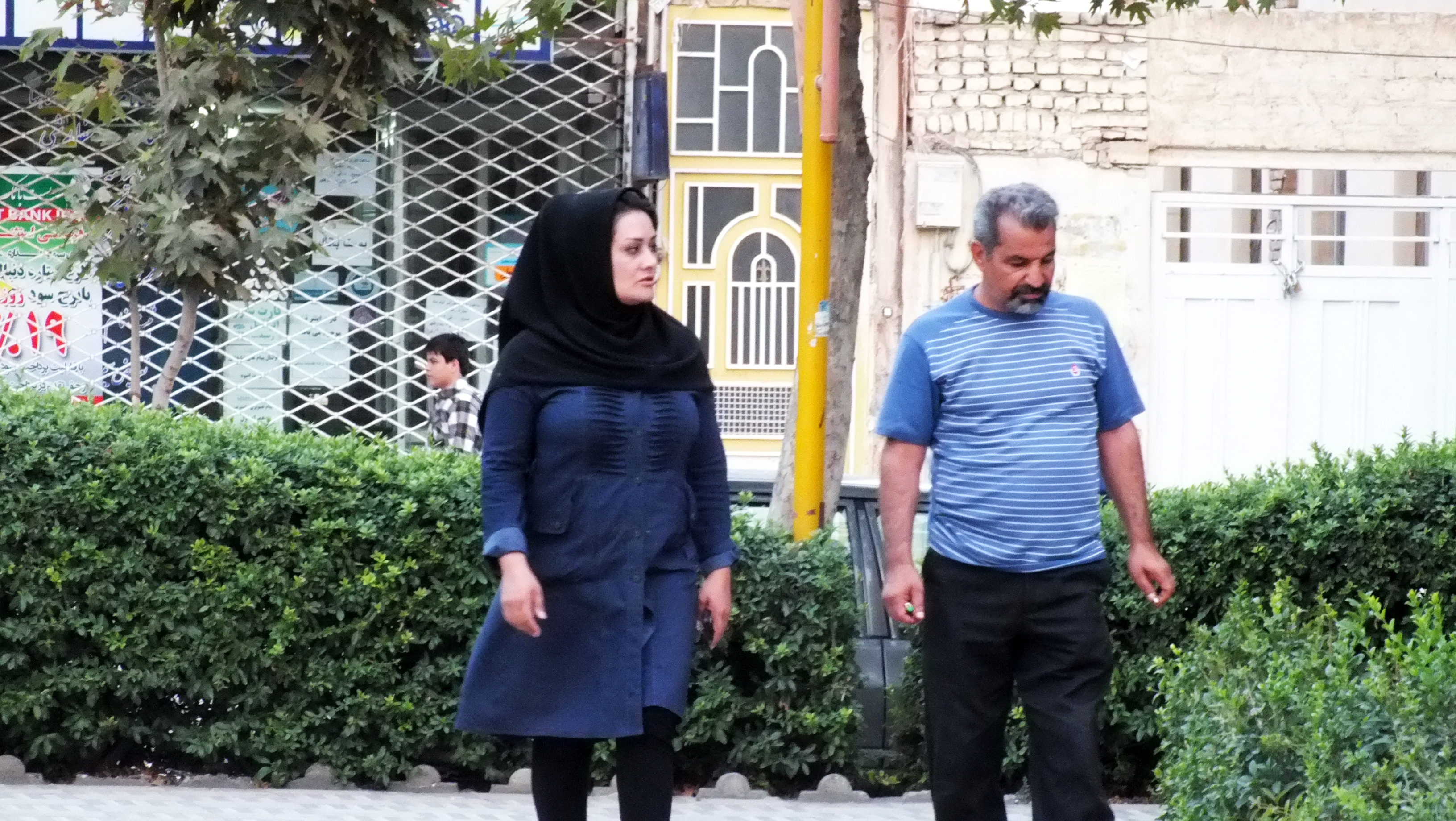 Man with his wife - in Kudak Park - Kashmar